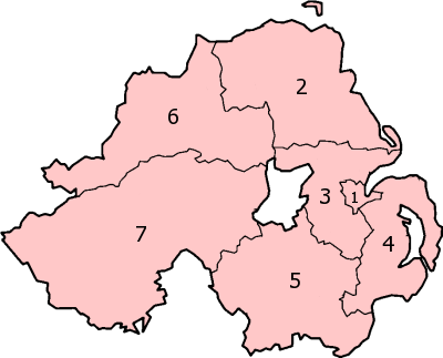 Map of the proposed new districts of Northern Ireland. Made by User:Morwen, based on Image:NorthernIrelandNumbered.png.